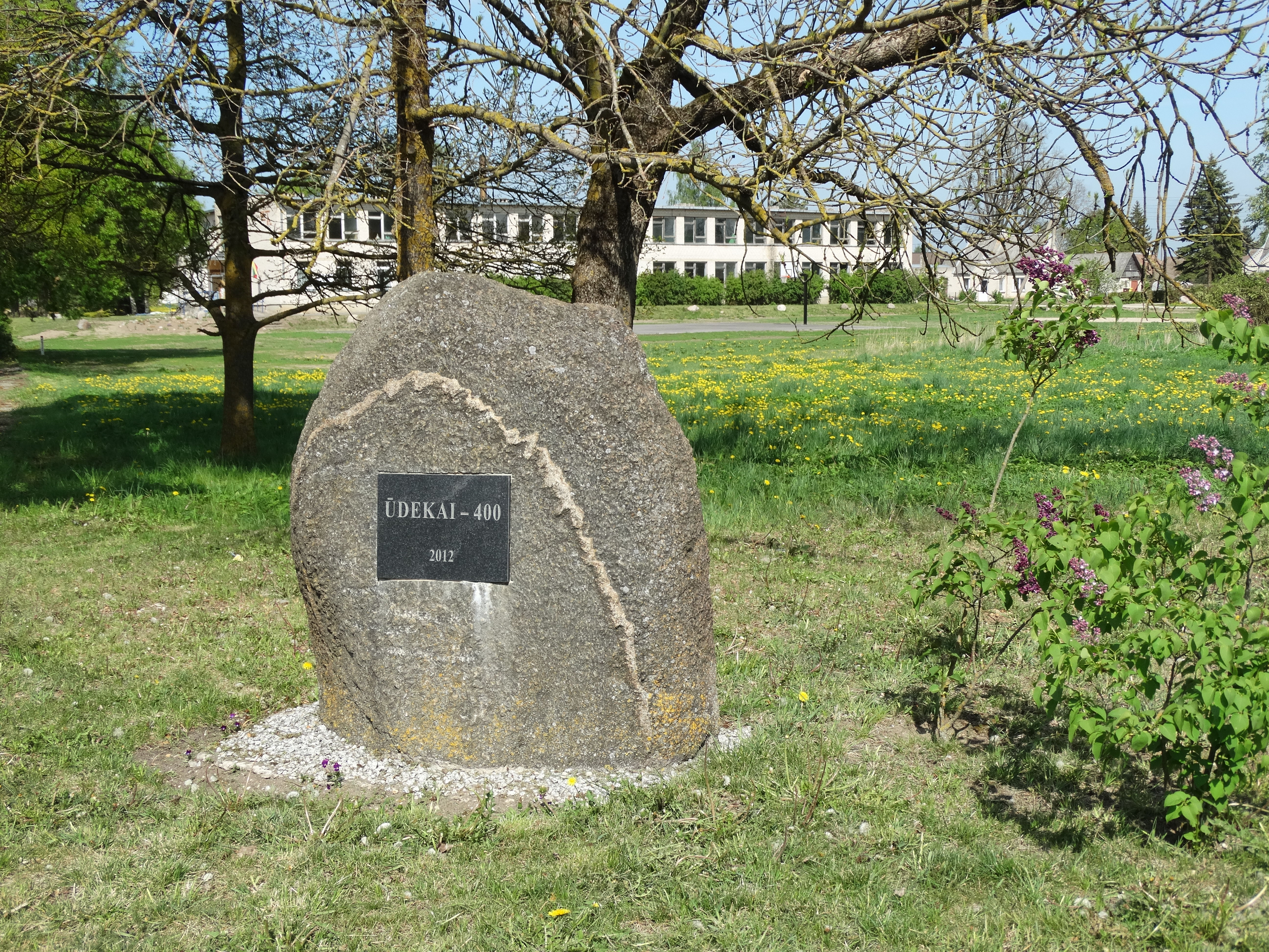 Stone 400 years, Ūdekai, Pakruojis district, Lithuania